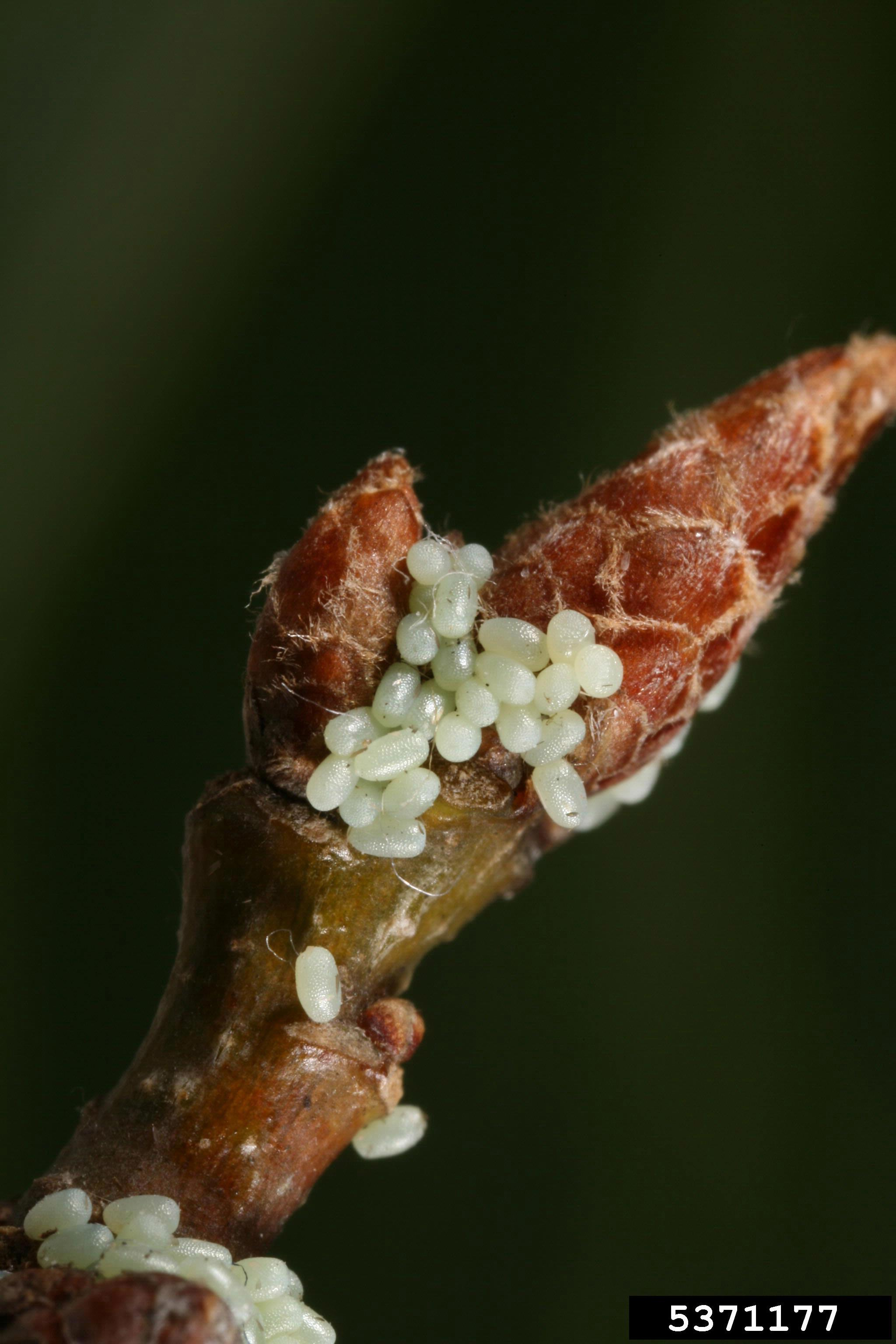 Operophtera brumata eggs